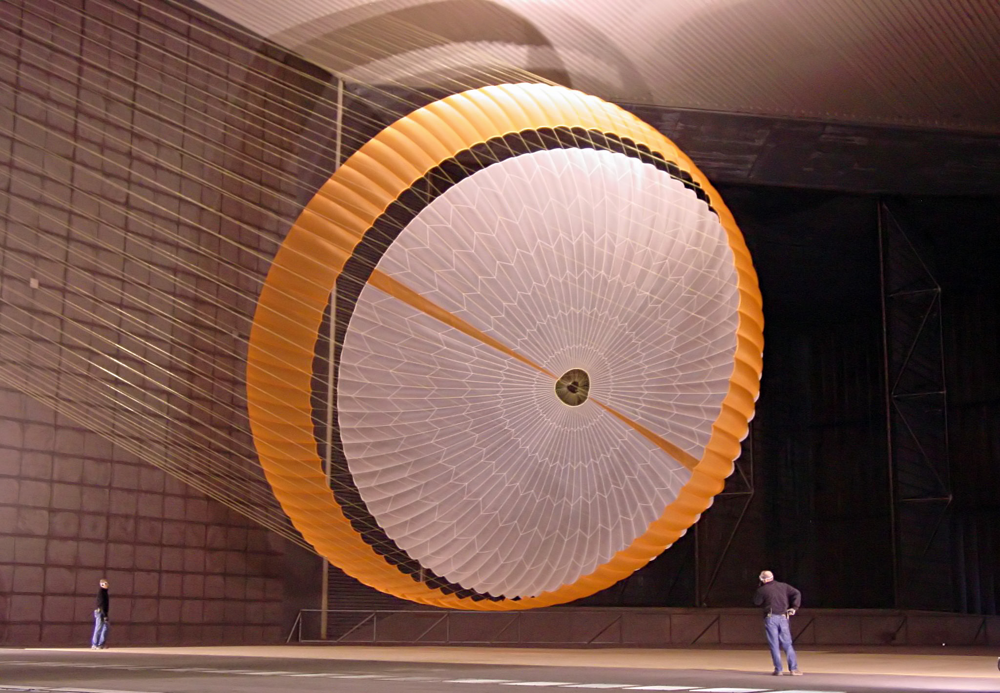 The team developing the landing system for NASA's Mars Science Laboratory tested the deployment of an early parachute design in mid-October 2007 inside the world's largest wind tunnel, at NASA Ames Research Center, Moffett Field, California. In this image, two engineers are dwarfed by the parachute, which holds more air than a 280-square-meter (3,000-square-foot) house and is designed to survive loads in excess of 36,000 kilograms (80,000 pounds). The parachute, built by Pioneer Aerospace, South Windsor, Connecticut, has 80 suspension lines, measures more than 50 meters (165 feet) in length, and opens to a diameter of nearly 17 meters (55 feet). It is the largest disk-gap-band parachute ever built and is shown here inflated in the test section with only about 3.8 meters (12.5 feet) of clearance to both the floor and ceiling. The wind tunnel, which is 24 meters (80 feet) tall and 37 meters (120 feet) wide and big enough to house a Boeing 737, is part of the National Full-Scale Aerodynamics Complex, operated by the U.S. Air Force, Arnold Engineering Development Center.